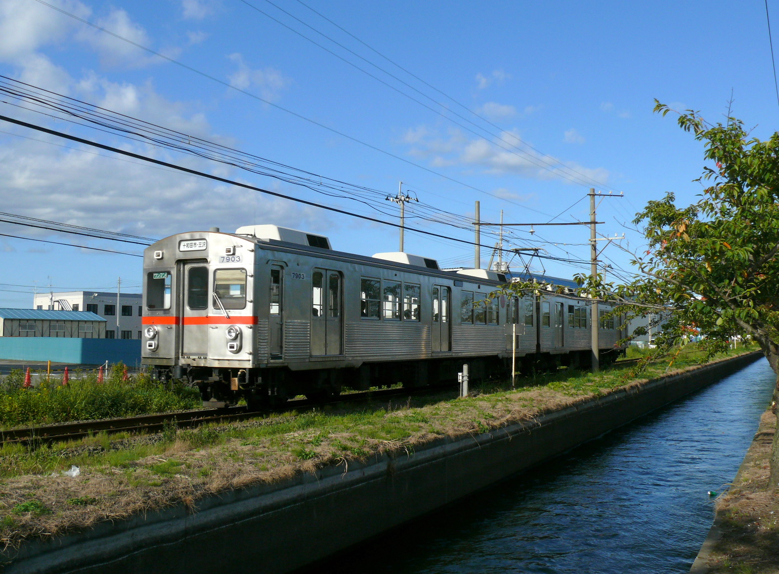 Towada Kanko Electric Railway Line. (Aomori Prefecture, Towada City)